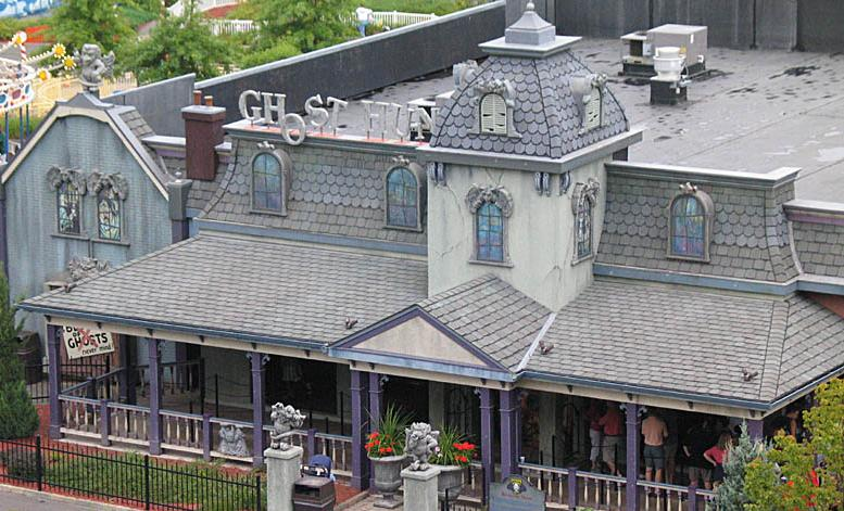 Ghosthunt attraction at Lake Compounce amusement park, Bristol, Connecticut, United States